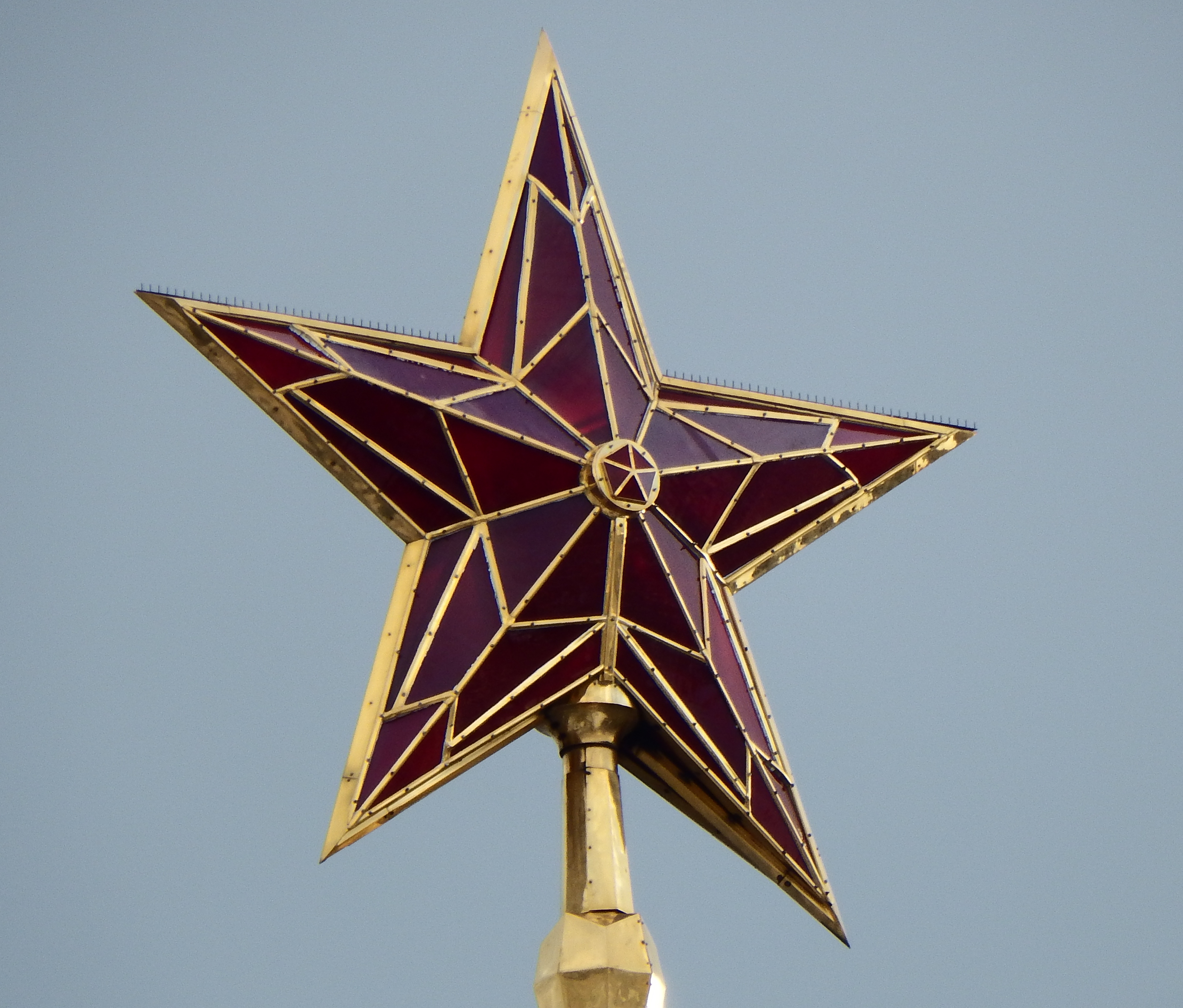 The red star on the Borovickaja Tower. Moscow Kremlin